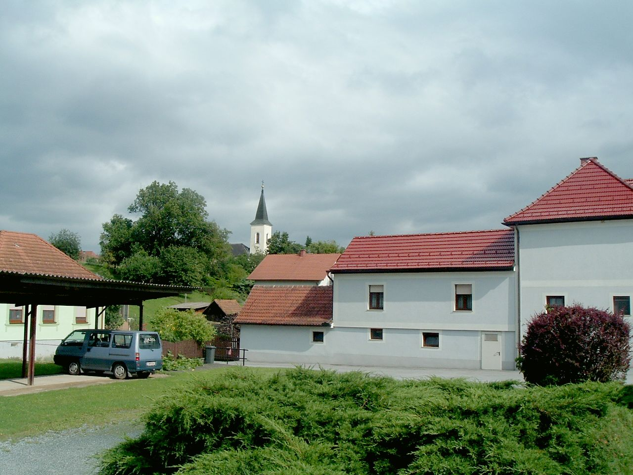 Kirchfidisch (Egyházasfüzes), Burgenland